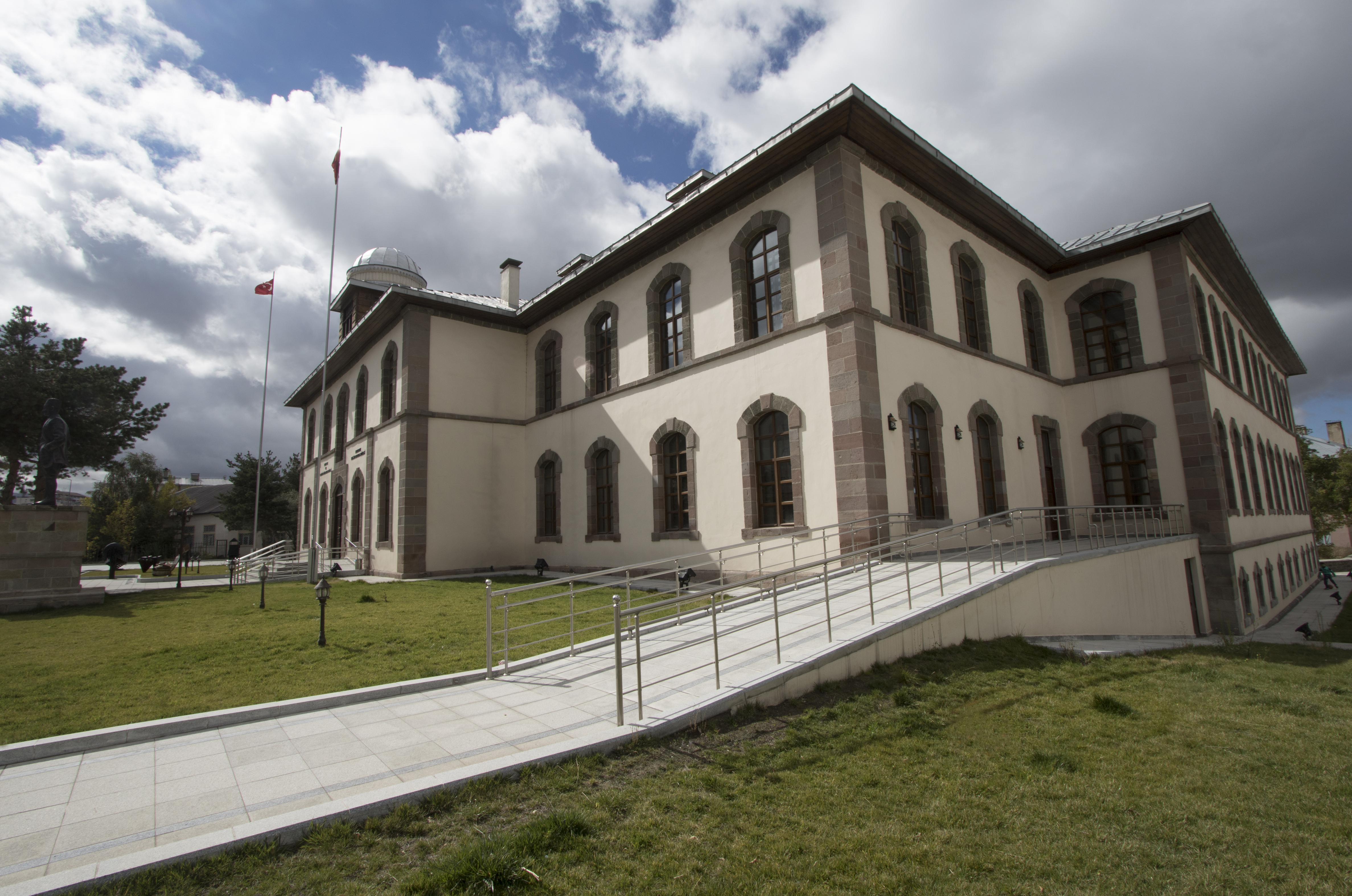 A view of the Museum of Erzurum Congress and Turkish War of National Independence. The Erzurum Congress was an assembly of Turkish Revolutionaries held from 23rd July to 4th August in 1919 in the city of Erzurum, Turkey.